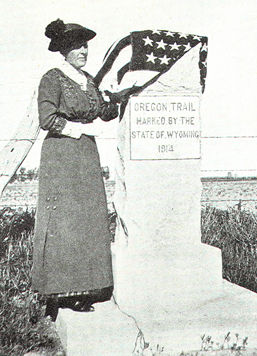 Grace Raymond Hebard unveiling Oregon Trail marker at Torrington, Wyoming.